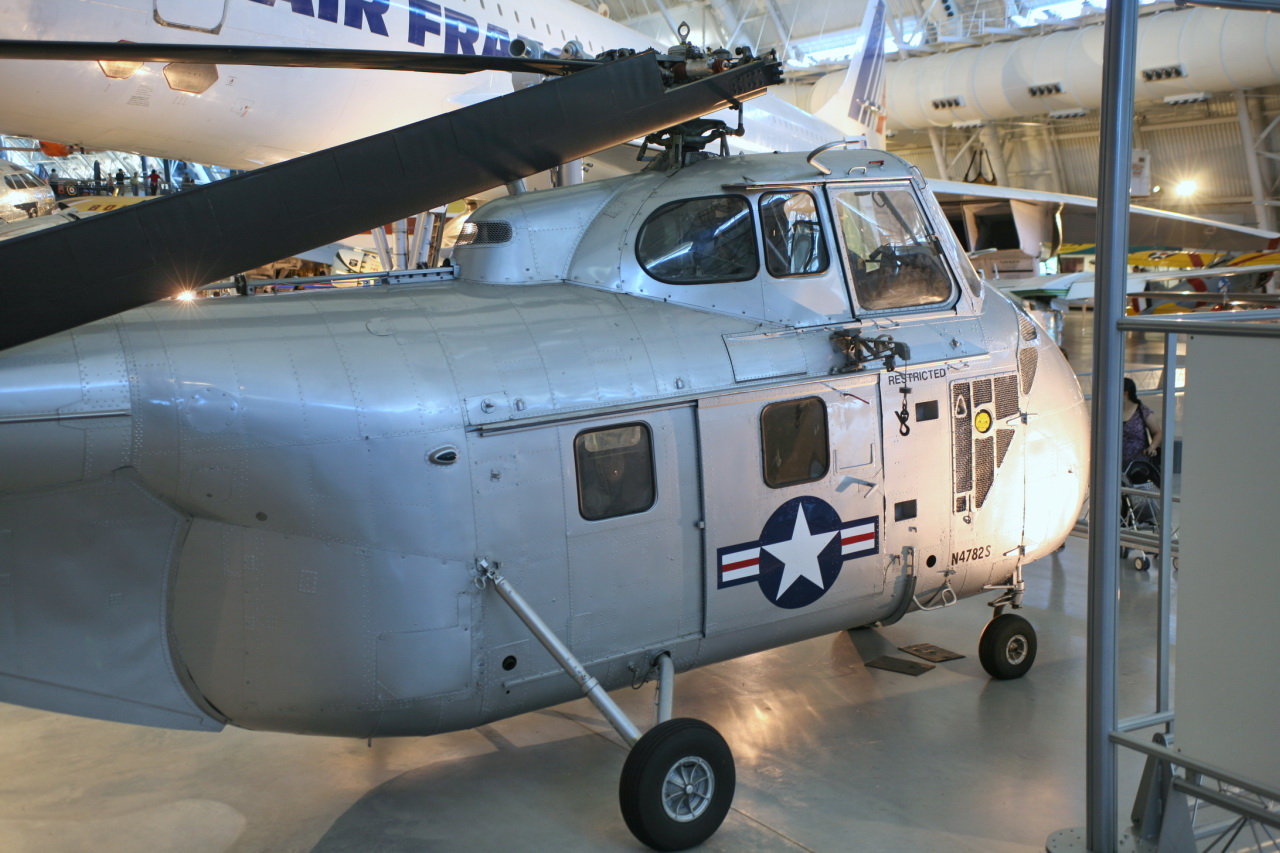 The YH-19 was the first practical single-rotor utility helicopter. The first in Sikorsky's successful S-55 series, it solved the center-of-gravity problems of earlier models by shifting the engine to the front and the passenger compartment to beneath the rotor hub. Other innovations included offset-flapping hinges and hydraulically boosted irreversible controls. Designed for the Air Force for arctic rescue, the S-55 served all U.S. military branches throughout the 1950s, especially during the Korean War and in most major military conflicts of the early Cold War. Civilian versions pioneered helicopter airline service in the United States and abroad.